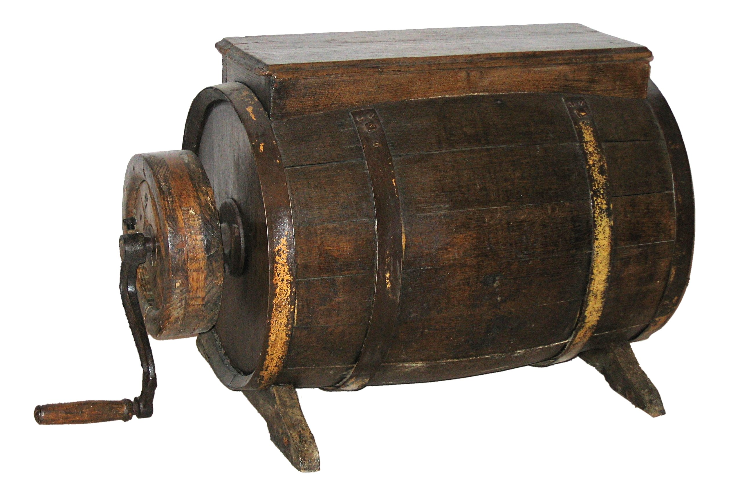 Norman butter churn, Normandy, France